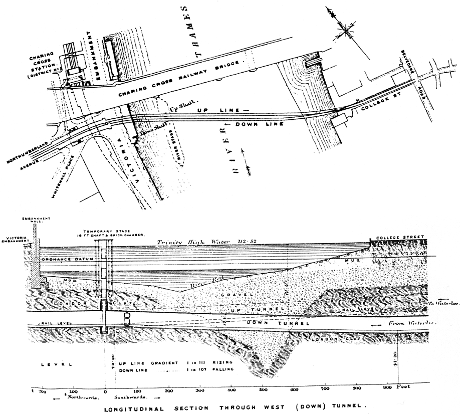 Tunnelling diagrams for the Baker Street & Waterloo Railway's Thames tunnels